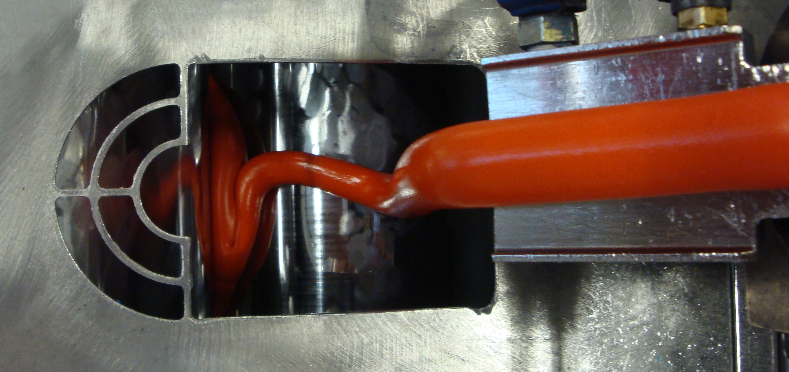 Melted powder coating during entering of the cooling device (top view)